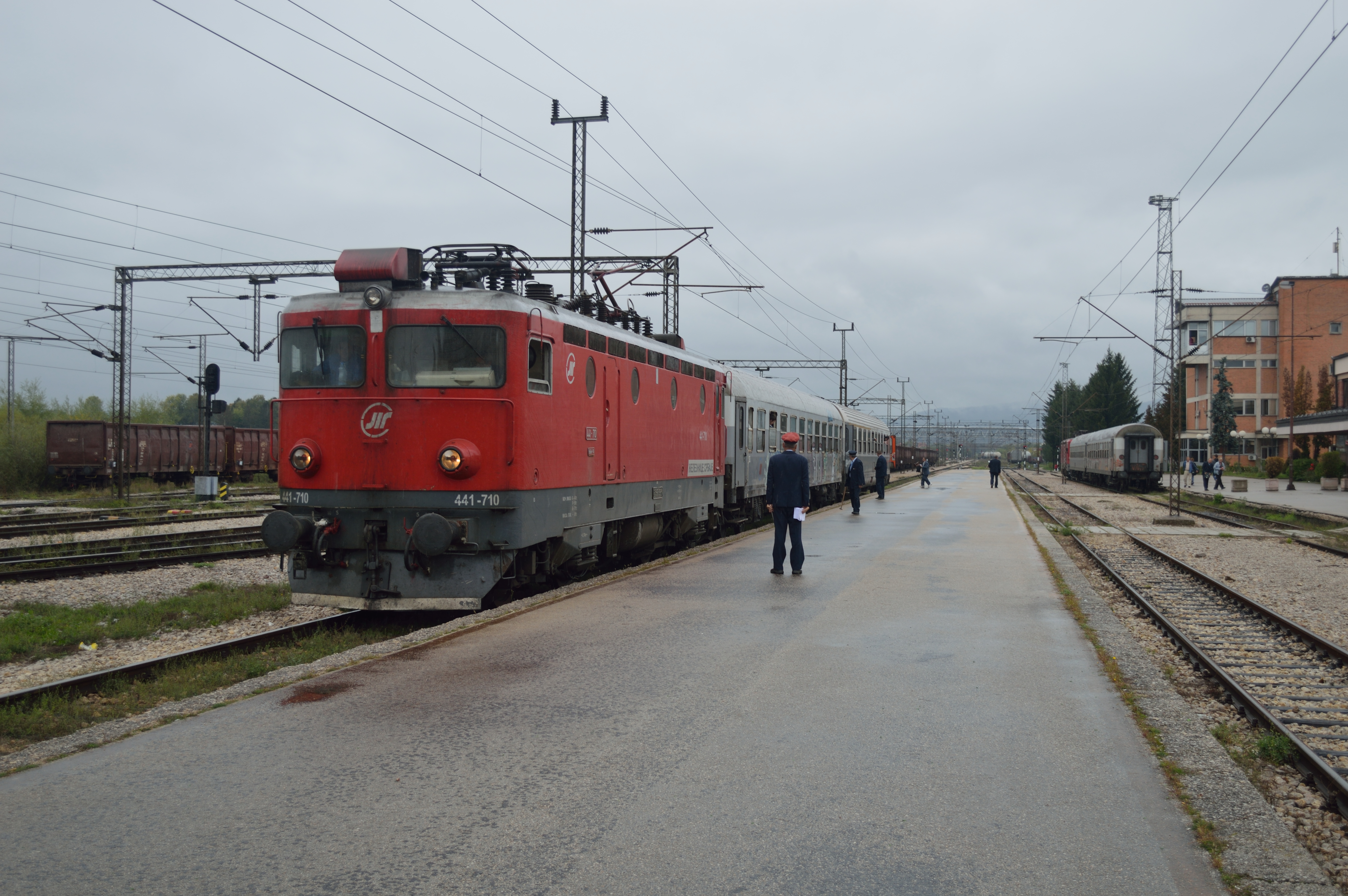 Balkans Rail Trip, Autumn 2013 - Day Eight Seen at Požega on the line from Beograd to Bar is a typical hauled train seen in Serbia comprising of two coaches haukled by one of the mixed traffic fleet of class 441 locos. On a wet morning on 30 September 2013, 441.710 is ready to be seen off by the station Red Cap. Train 2123, 07:05 Beograd to Prijepolje Teretna.